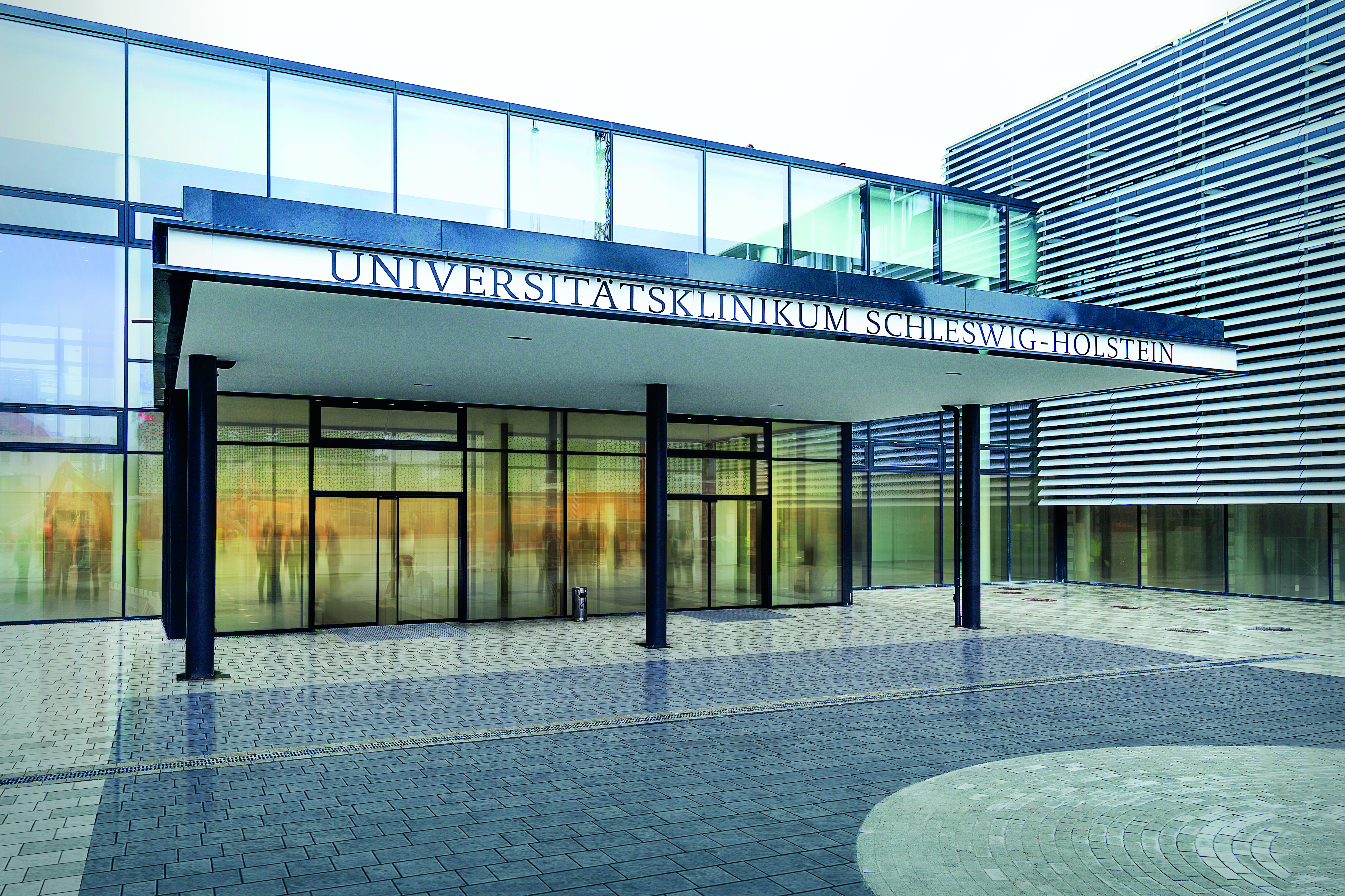 Entrance of university Medical Center Schleswig Holstein in 2019